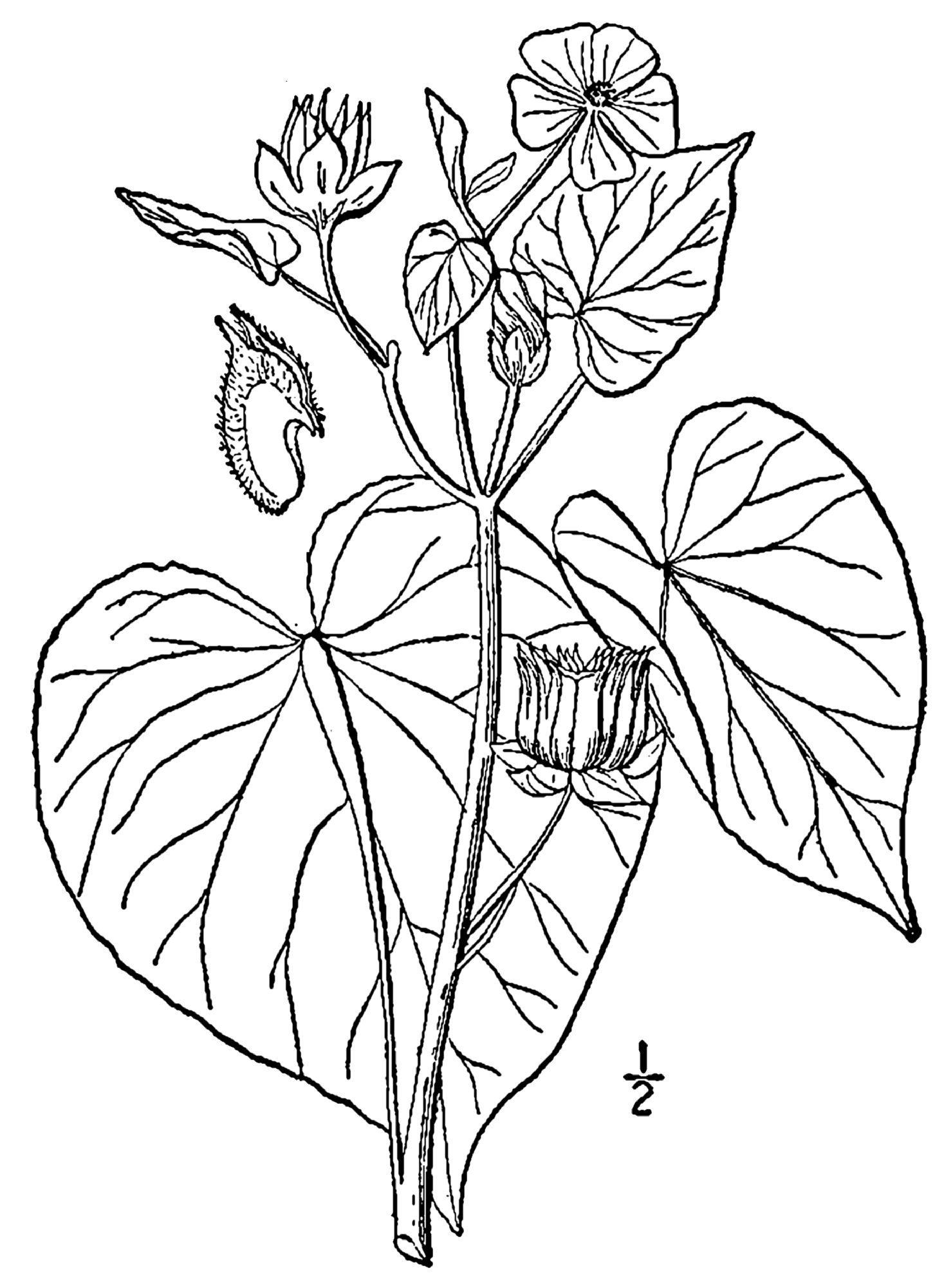 Abutilon theophrasti